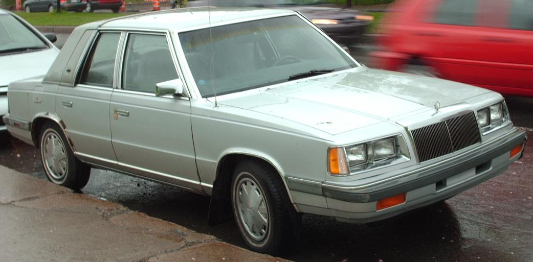 1985-1988 Chrysler LeBaron photographed in Montreal, Quebec, Canada.